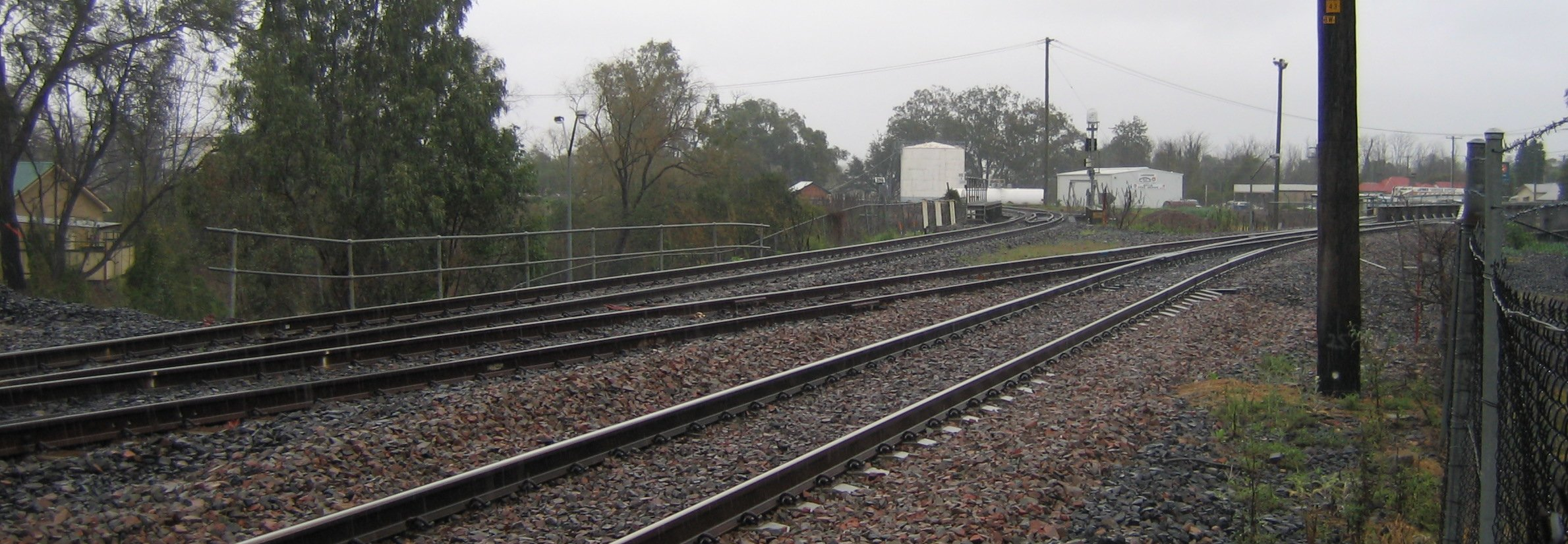 Ulan railway line branching off main line at Muswellbrook